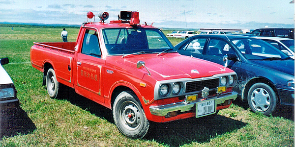 The second generation Toyota Hilux, fire chief's vehicle.